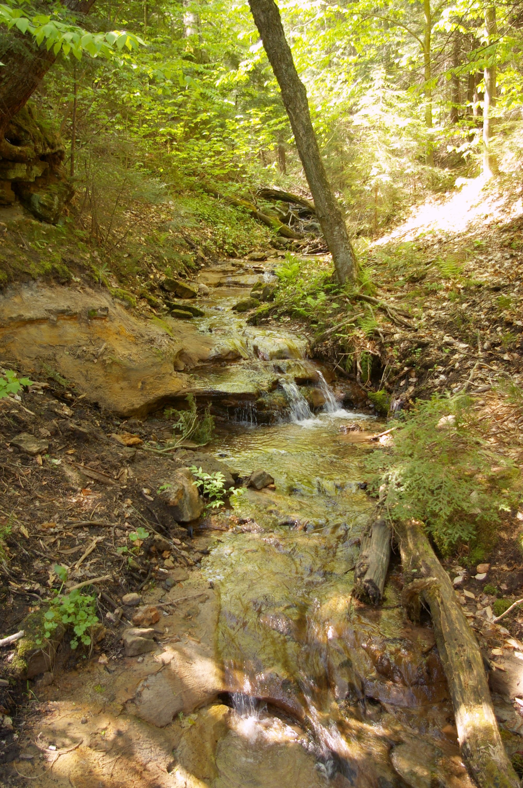 Upper Wagner Falls — in the Wagner Falls Scenic Site. Located near Munising, Alger County, Upper Michigan.